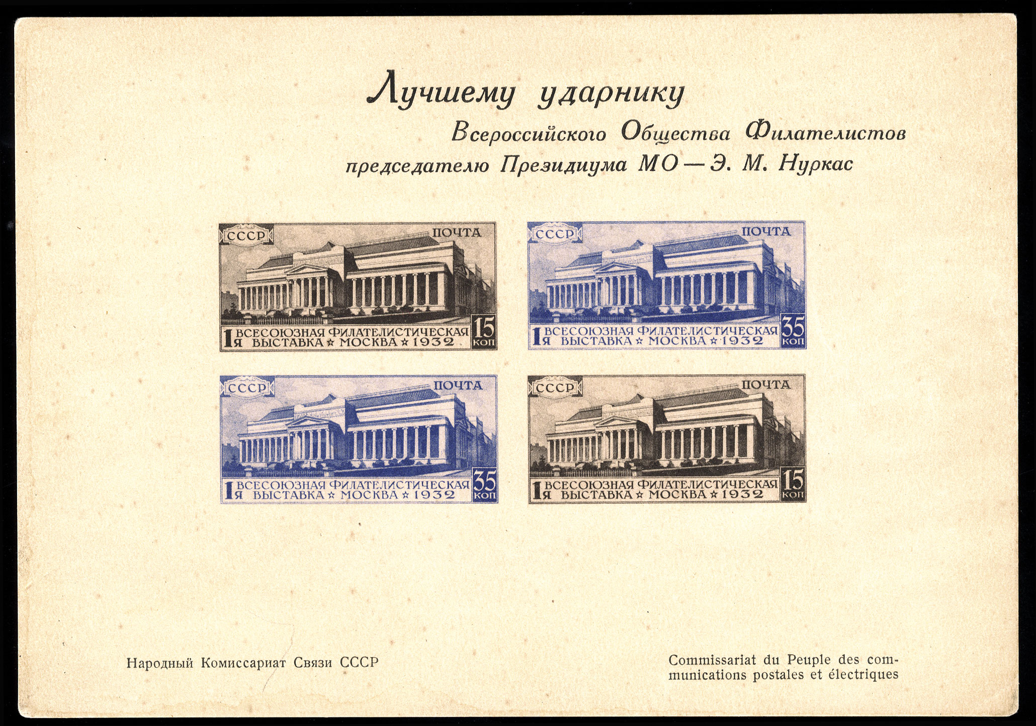 Cherrystone Auctions note: "SOVIET UNION 1932 - the unique souvenr sheet of four 1932 All Soviet Philatelic Exhibition in Moscow, souvenir sheet of four on thick card, with the unique three line personalized overprint "To the best shock worker of the All Russian Philatelic Society - President of the Moscow Philatelic Organization E.M. Nurkas", unused without gum as issued, v.f., signed "Shtern". While 25 souvenir sheets were overprinted with the two line "To the best shock worker of the All Russian Philatelic Society", three were additionally personalized with a three line overprint. One was given to the notorious Genrikh Yagoda (head of the NKVD), and one each to the presidents of Moscow (Nurkas) and Leningrad Philatelic Organizations/Societies. The latter, as well as Yagoda were executed on Stalin's orders, with only Mr. Nurkas (and his souvenir sheet) surviving. During the purges, Mr. Nurkas was imprisoned and traded the sheet with another inmate, a physician who miraculously survived Stalin's Gulags and World War II. An important piece of history and perhaps the greatest rarity. Price Realized: $675,000.00."